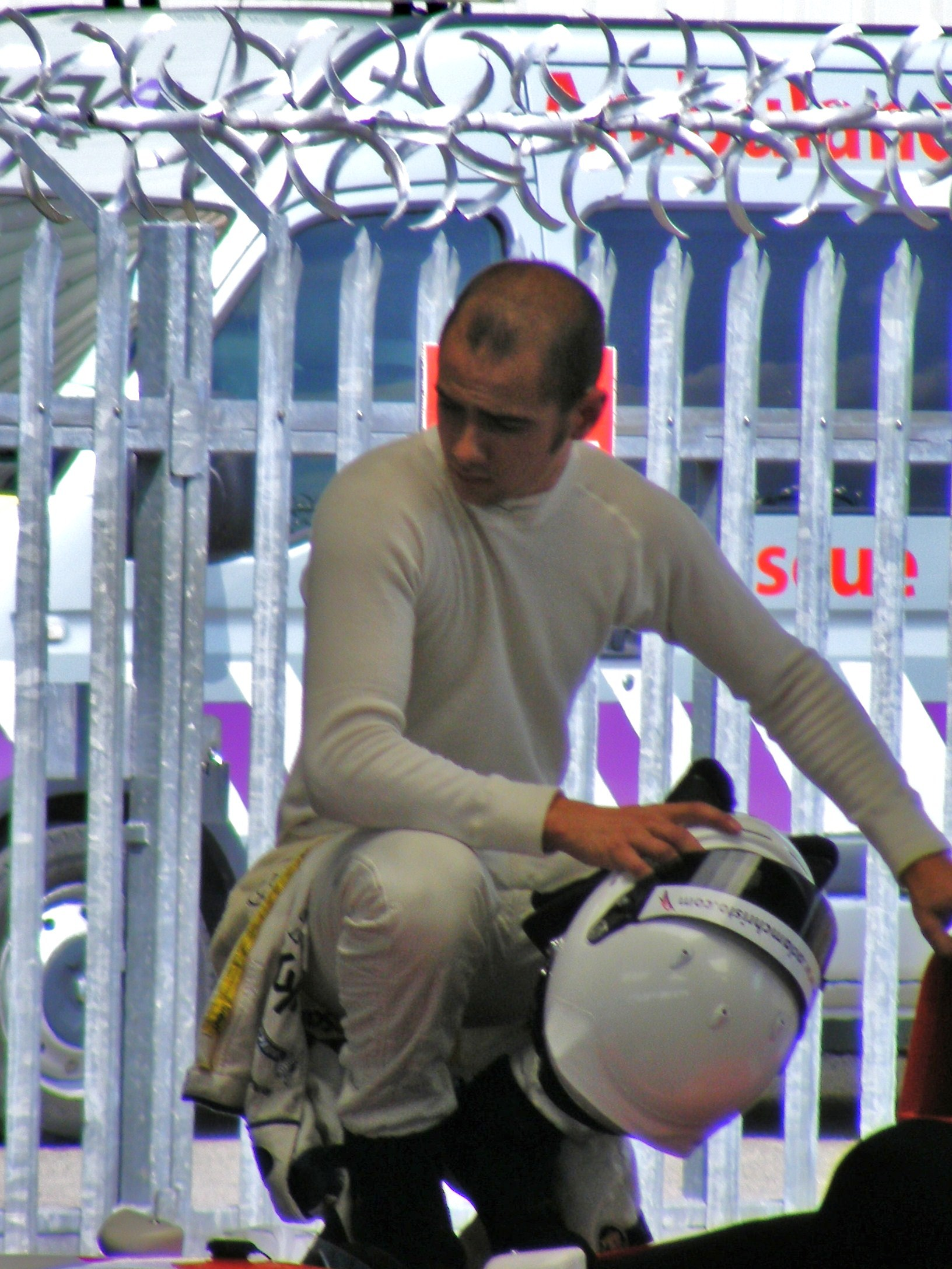 Adam Christodoulou at Parc fermé after the second qualifying session for Formula Renault.